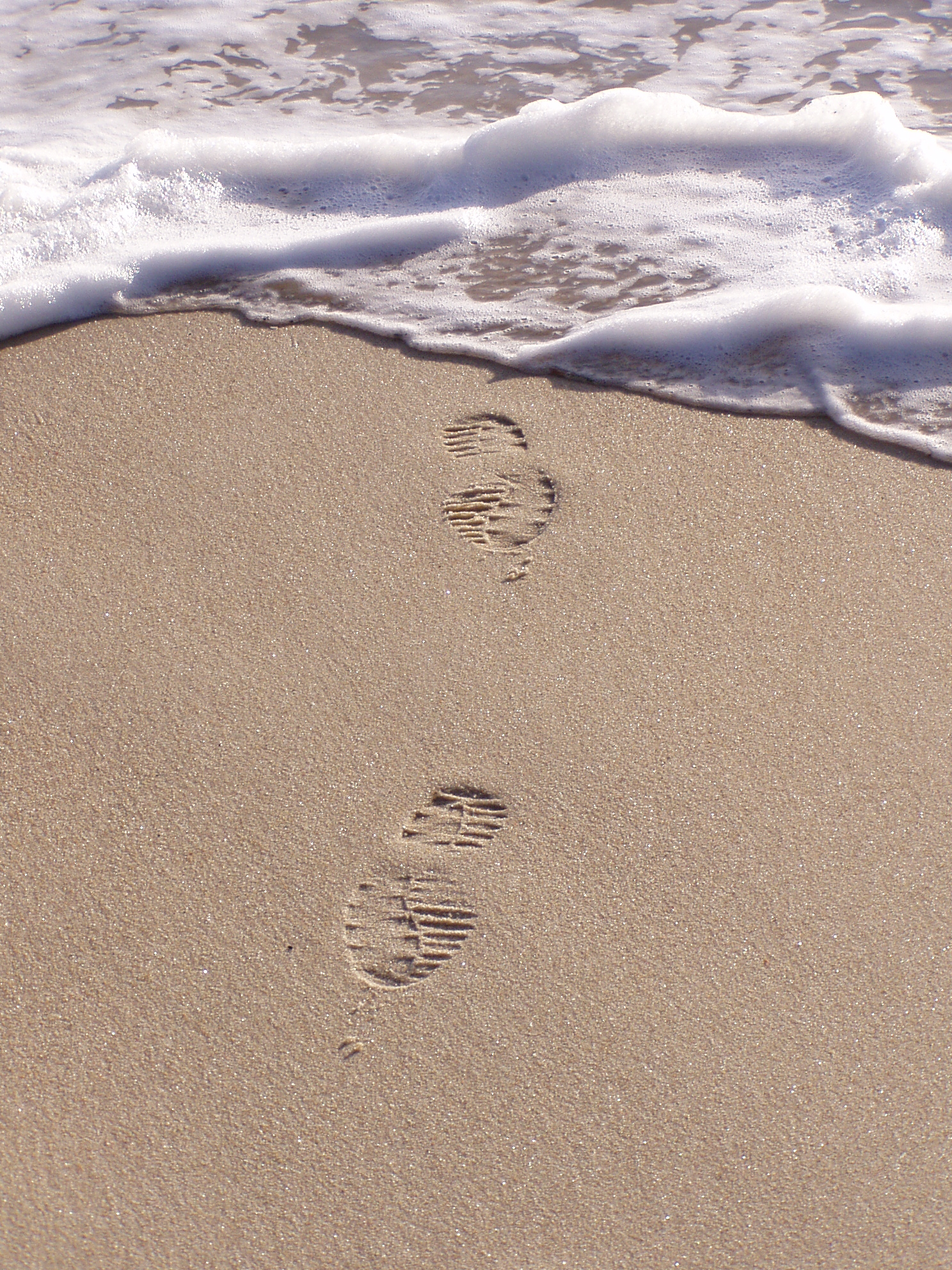 Footprints in sand. Marinha Grande, Portugal.